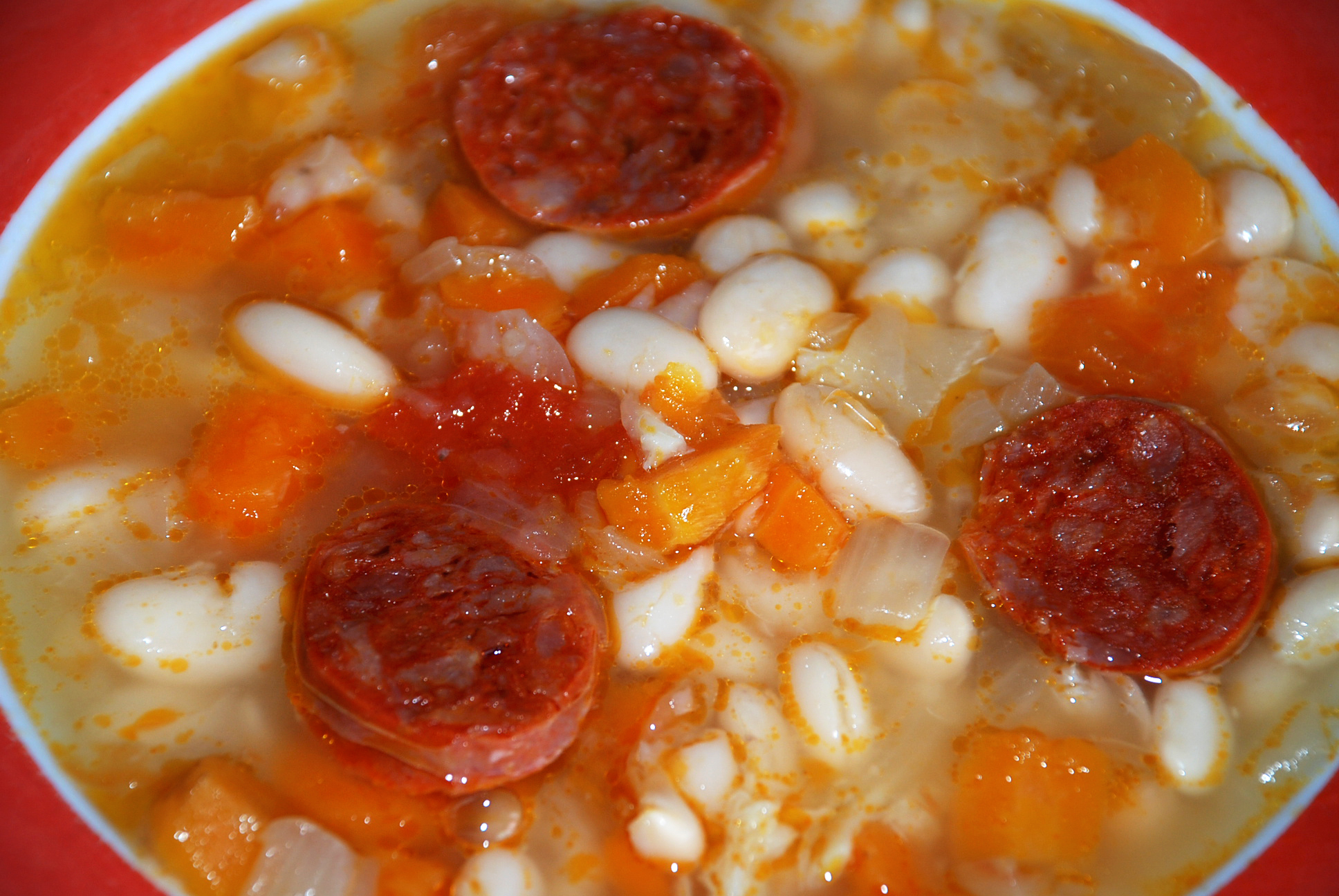 White bean of Saldaña stew with chorizo (Palencia, Castile and León).